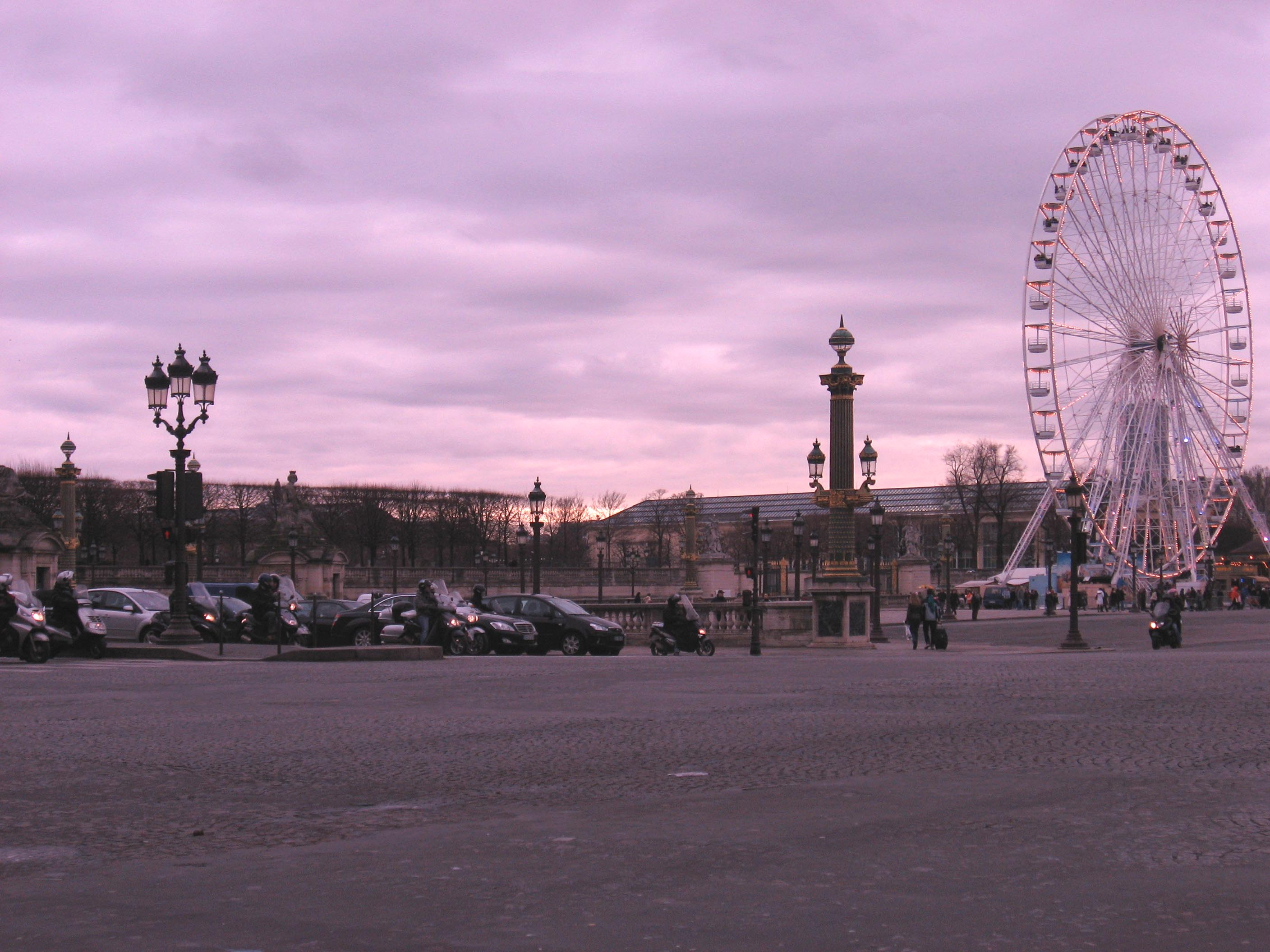 Ferris wheel in Place de la Concorde in Paris